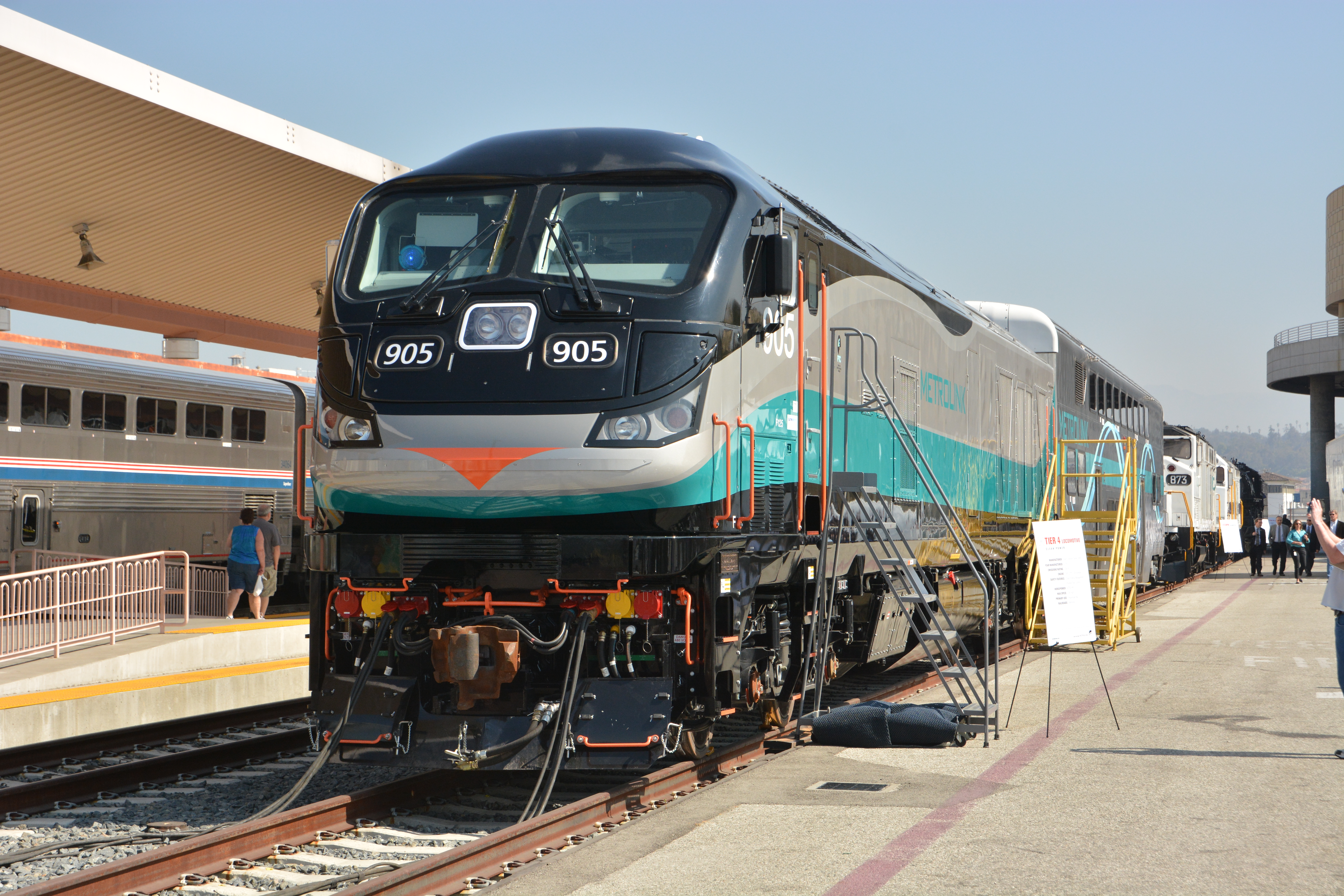 Metrolink F125 #905 at LAUPT in July 2016